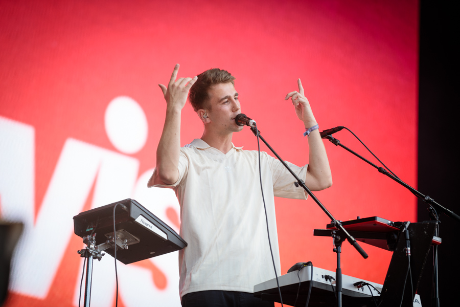 Sam Lewis aka Sg Lewis at the main stage at Stavernfestivalen. The concert was part of Stavernfestivalen and took place on 13. July 2018 in Stavern. Lineup:Sam Lewis (keyboard and vocal)Unidentified (vocal)Unidentified (drums)Unidentified (bass guitar)